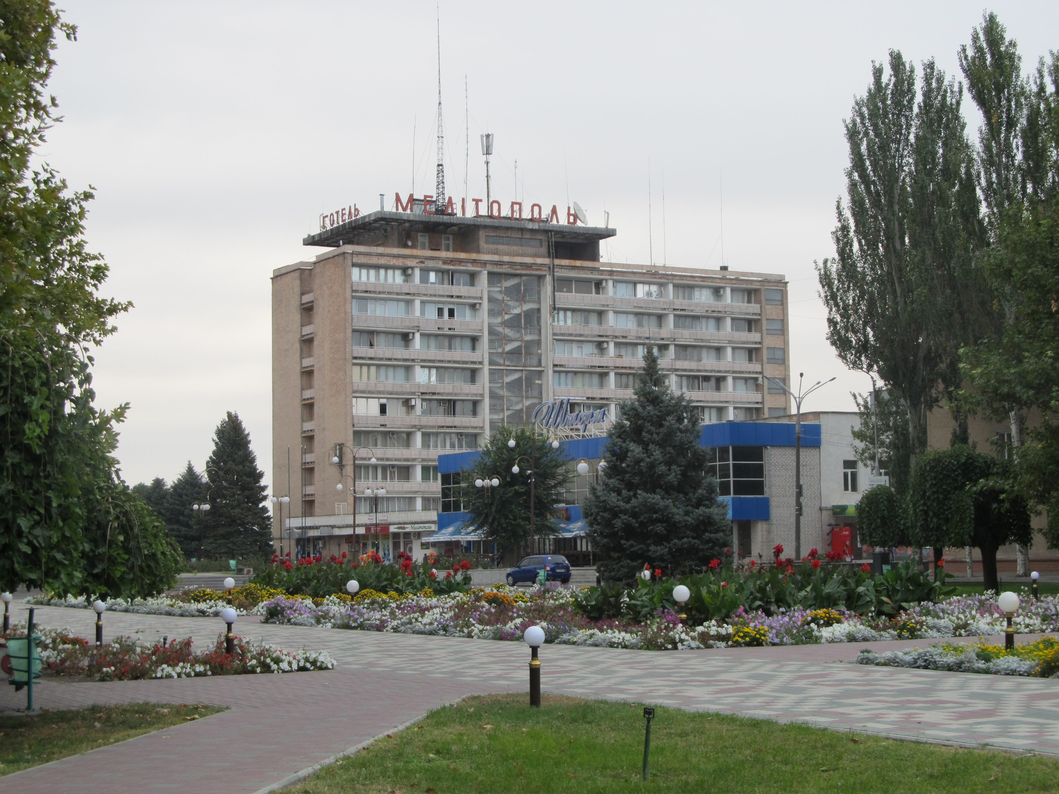 Melitopol hotel